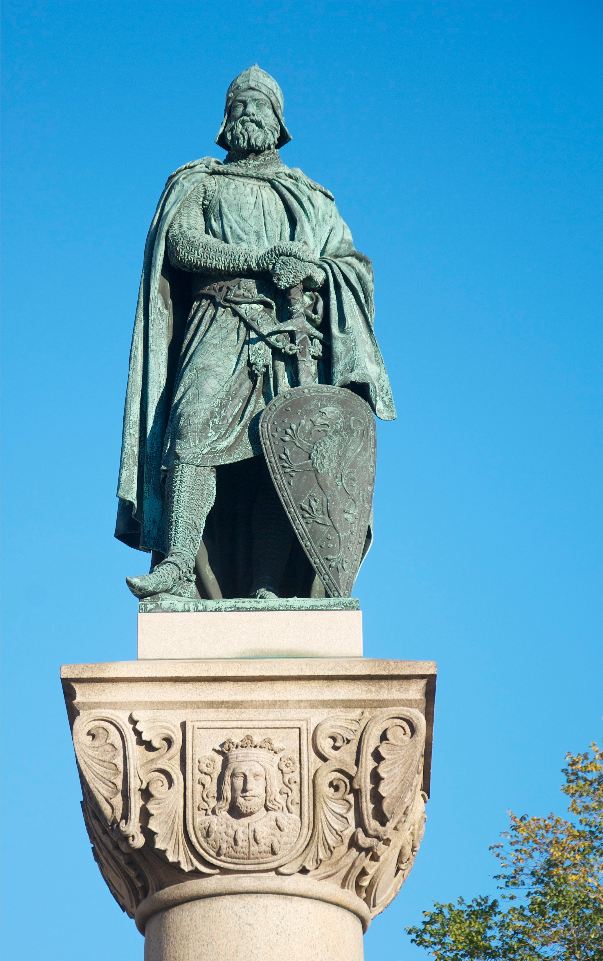 Statue of Birger jarl in Riddarholmstorget.